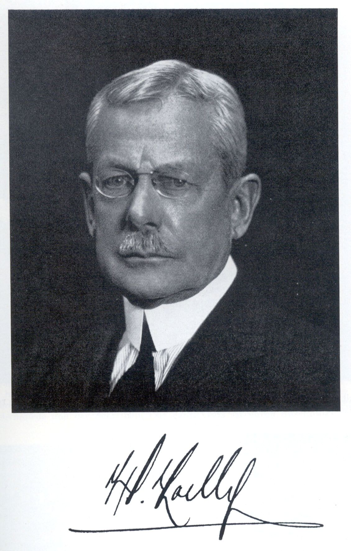 Photo of Heinrich Zoelly, swiss steam turbine engineer, with his signature